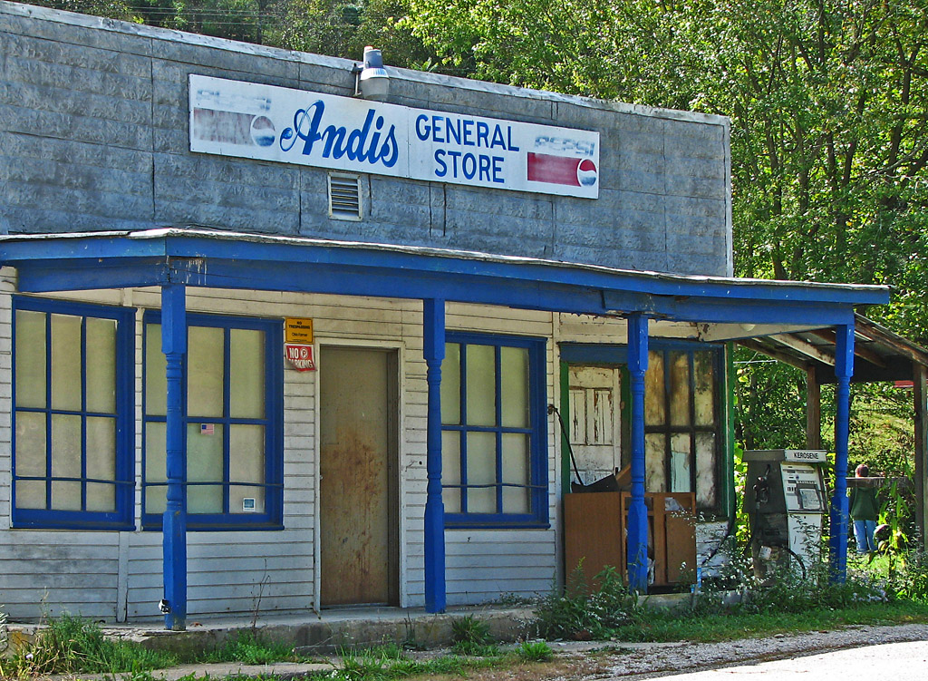 Front of the abandoned Andis General Store, located on the southwestern corner of the intersection of State Route 217 and Deering-Bald Knob Road at Andis in central Lawrence Township, Lawrence County, Ohio, United States.